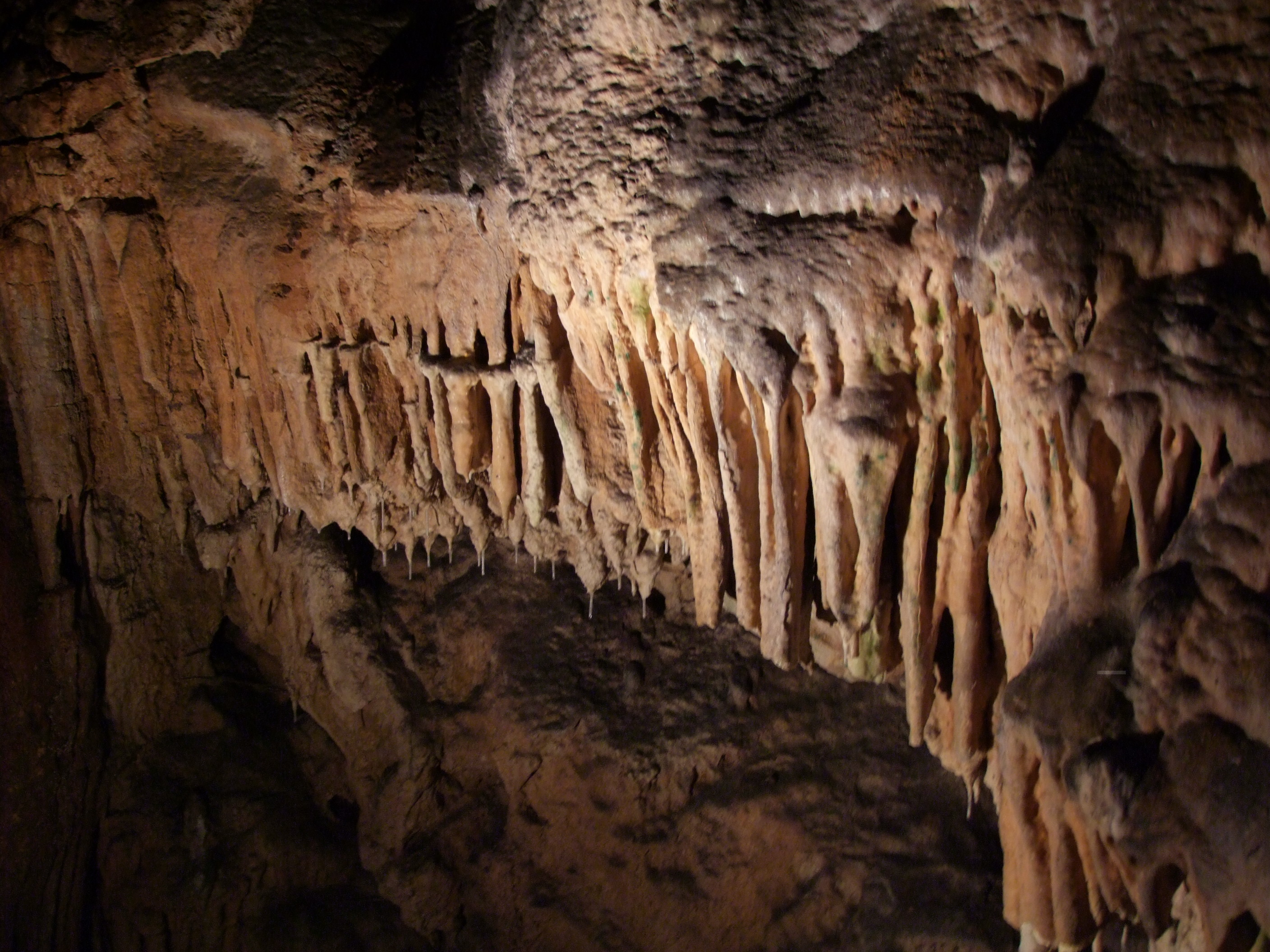 Cave decorations in Biserujka on the island of Krk, Croatia.